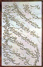 a type of writeline in iran